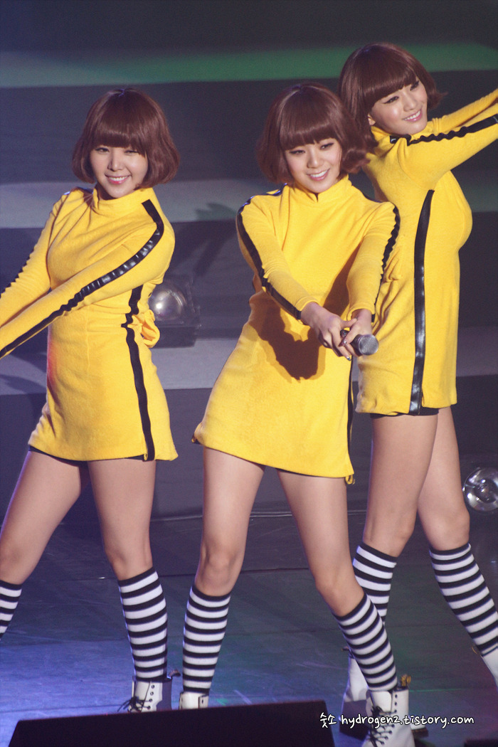 Orange Caramel at the BiG 5 Conert.